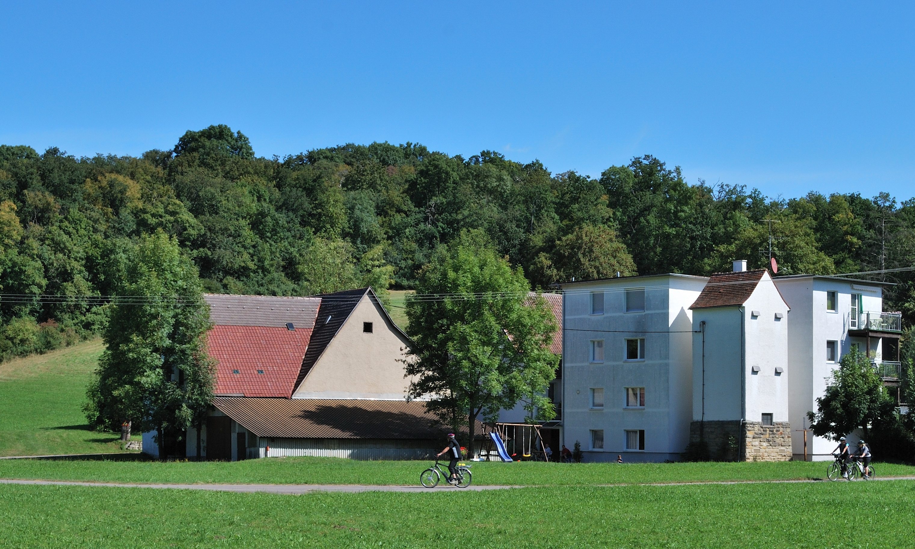 Glemsmühle is a former water mill on the river Glems in Korntal-Münchingen in Baden-Württemberg, Germany. The mill does not work since 1974 anymore. The building serves today as an apartment house.